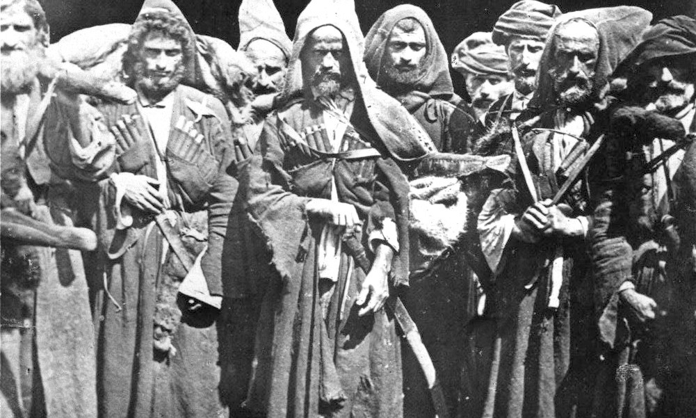 Abkhazians are in Samsun sea port after Circassian - Russian War in 1864.According to that Circassian Website: they are not refugees in 1864, they are delegates from the 1866/67 abkhazian uprising. This version is in order to the inscription „Абхазск.депутаты. К 88“ (abchazsk.deputaty. K. 88), deputaty are delegates in Russian.